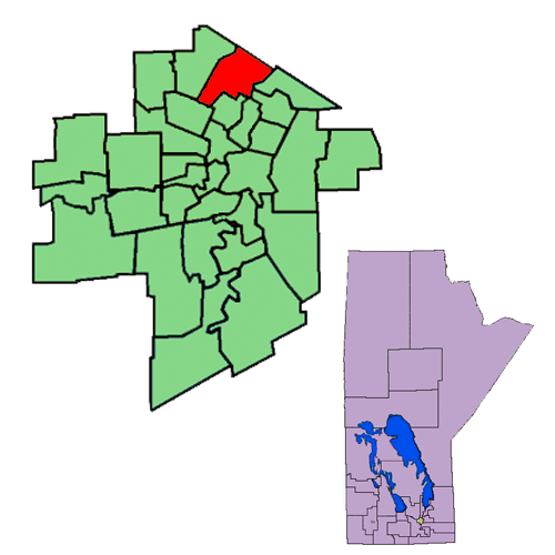 The 1999-2011 boundaries for the Kildonan electoral district highlighted in red.